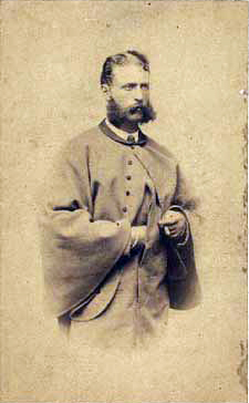 Holger Birkedal, ca. 1870s. Danish engineer and Chilean spy whose informations on the defences of the Peruvian capital Lima gathered in August-October 1880 greatly contributed to the Chilean conquest of the city in 1881.